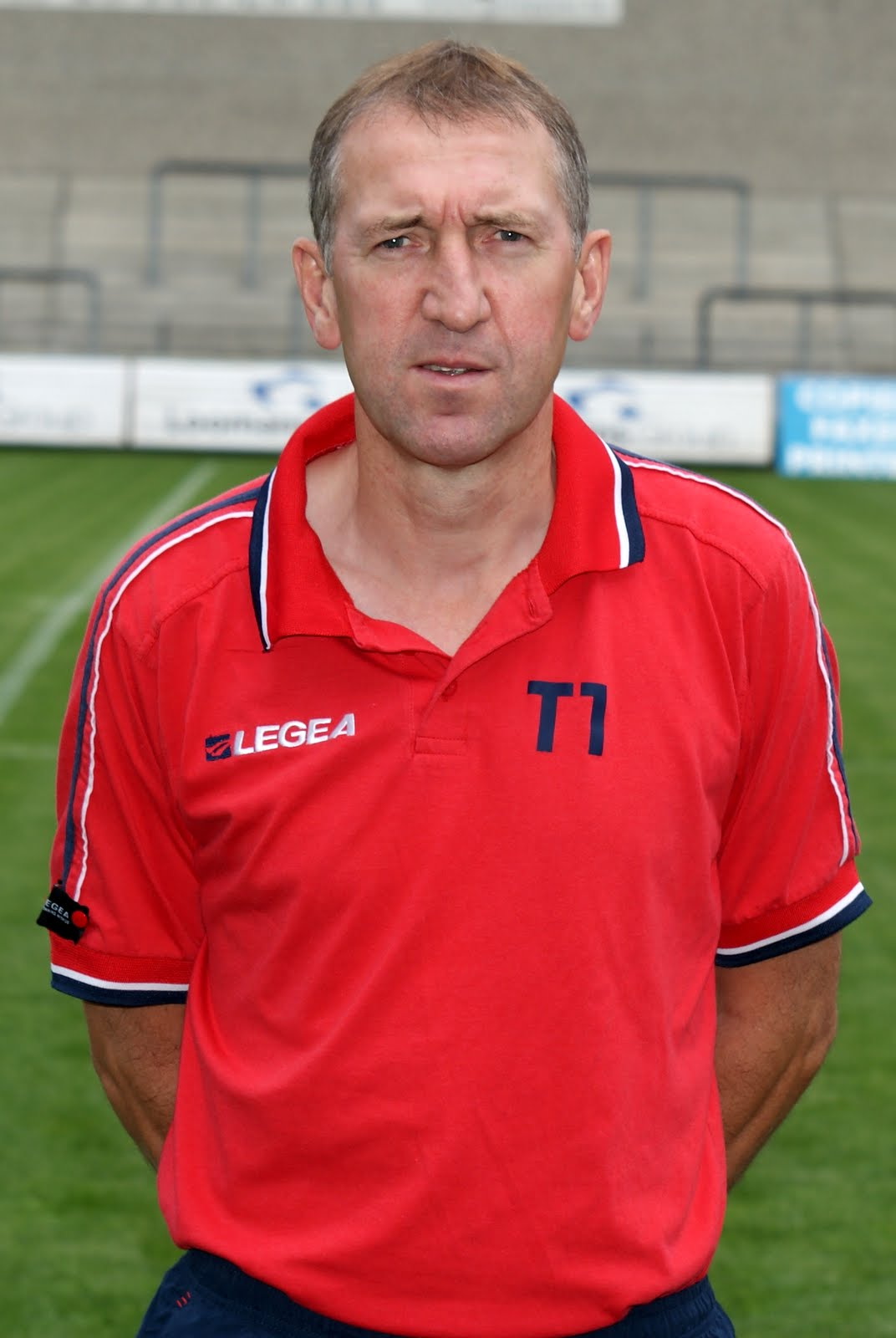 Trainer